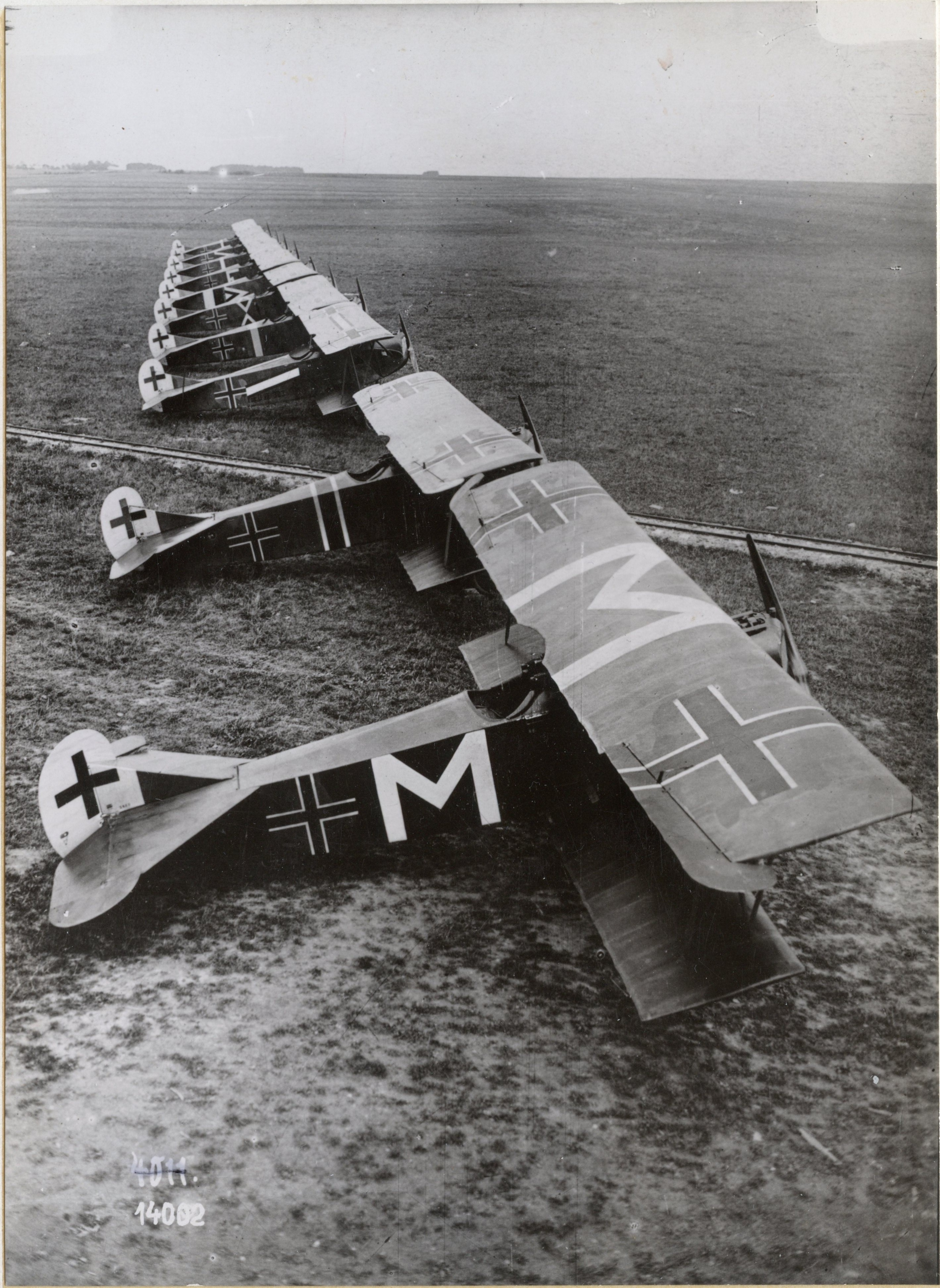 Menckhoff's Fokker D.VII of Jasta 72 (marked with prominent letter "M"s) at Bergnicourt, 1918